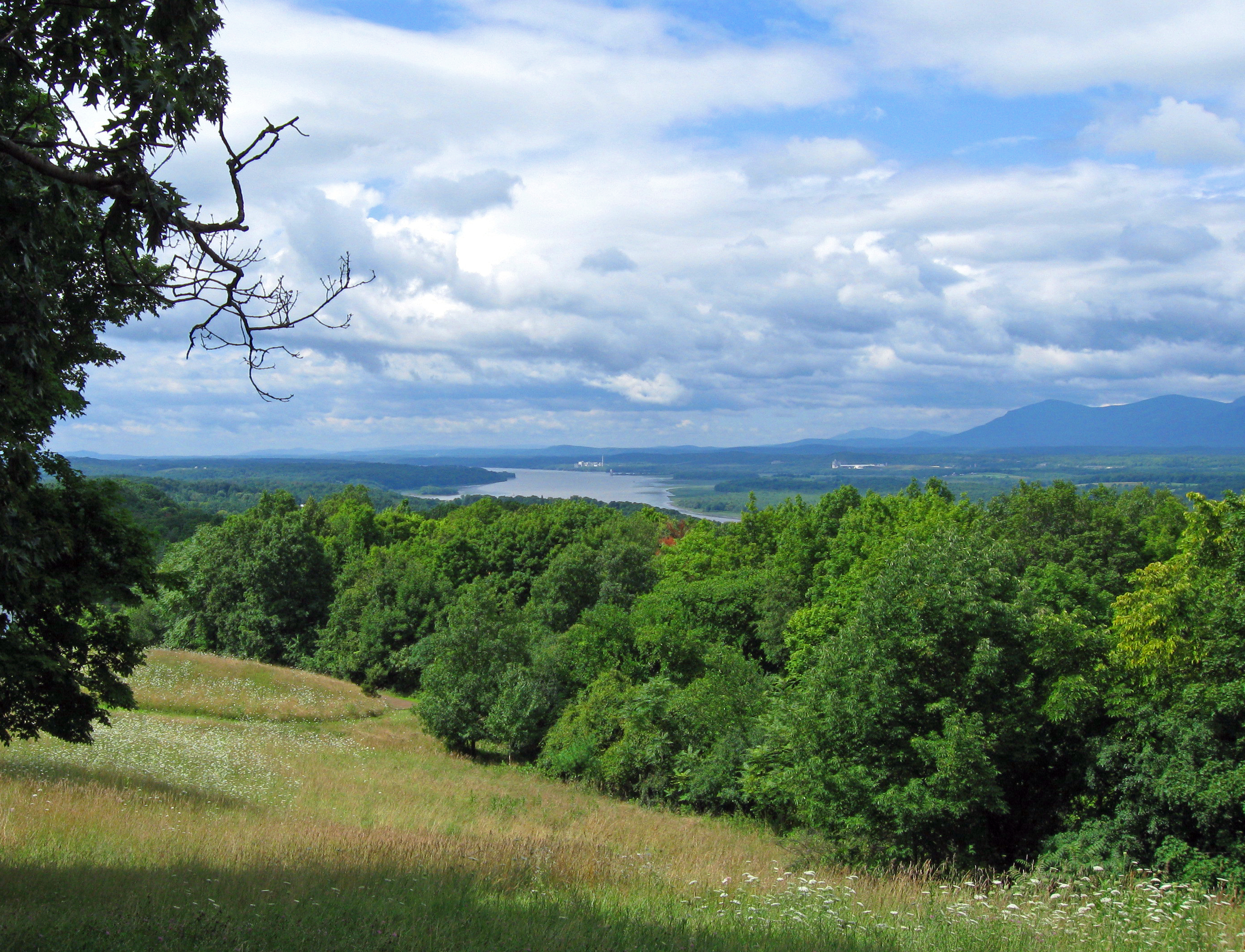 View of Hudson River and Catskills from Olana, home of Hudson River School artist Frederick Church